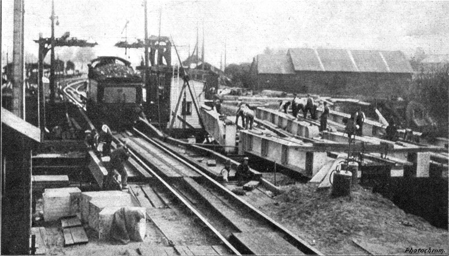 Trowse old swing bridge, during removal (Railway Magazine, 100, October 1905).jpg